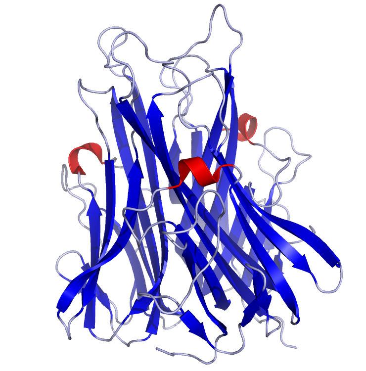 Crystal structure of TNFa as published in the Protein Data Bank (PDB: 1TNF)